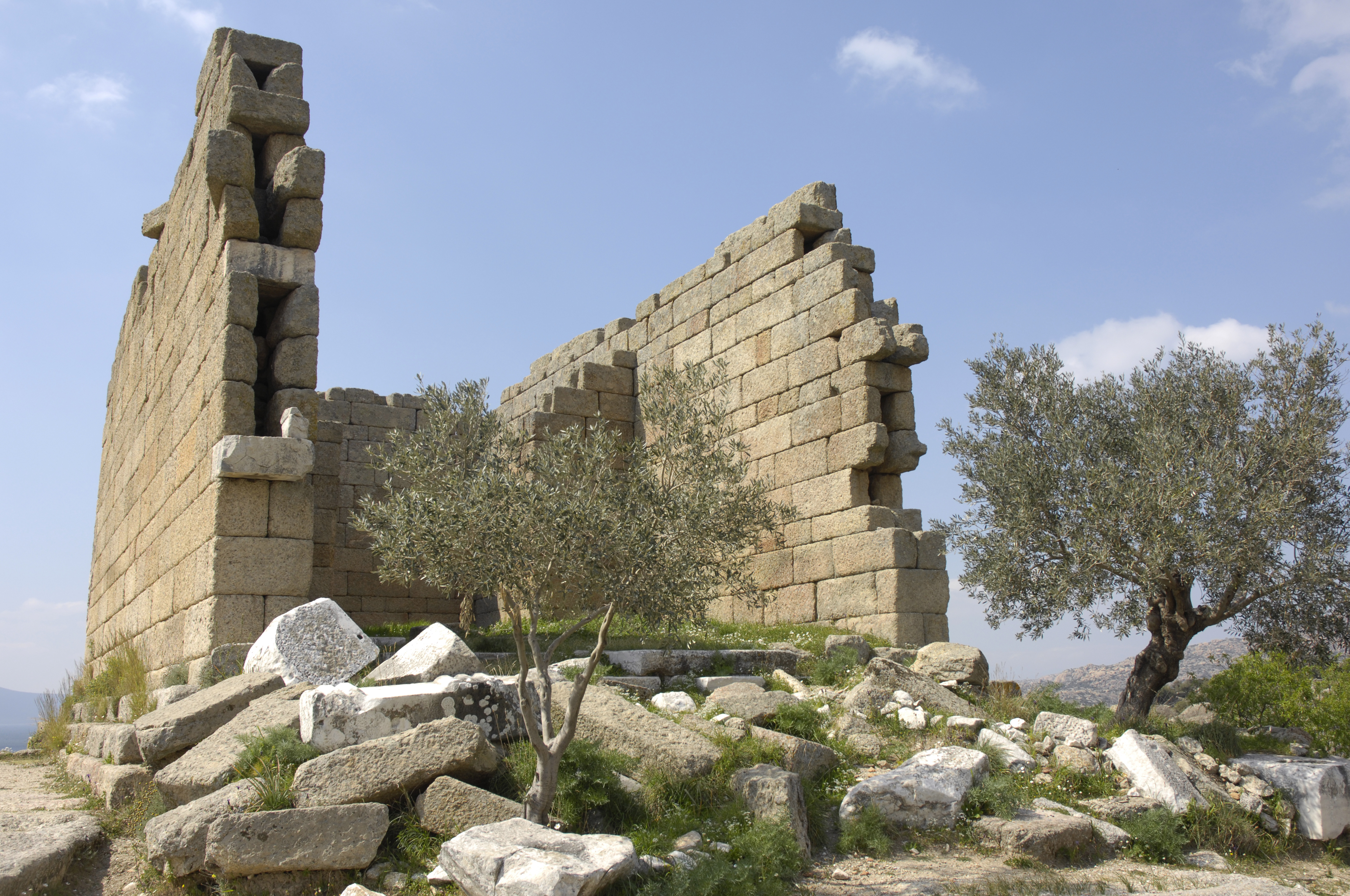 This is an originally Carian settlement from the 5th century, it became a member of the Delian League, paying a yearly tribute of one talent. In the 4th century it came under the reign of Halicarnassus. King Mausolos tricked the occupants into opening the city gates, after his troops entered the town he transformed it into a strong border fortification. At the time it’s position was at the southeast corner of the Latmus sea (as were Priene and Miletus), and so had a connection to the Aegean Sea. In the 4th century deposits by the Meander river closed this connection, creating the Bafa Lake, at the foot of the 1367 meters high Latmos granite massive. It is one of some spots where the Endymion legend occurred. On nearby islands there are monasteries. There also is a Byzantine Castle. This is it from a distance. The cella of the Athena temple, third century BC.